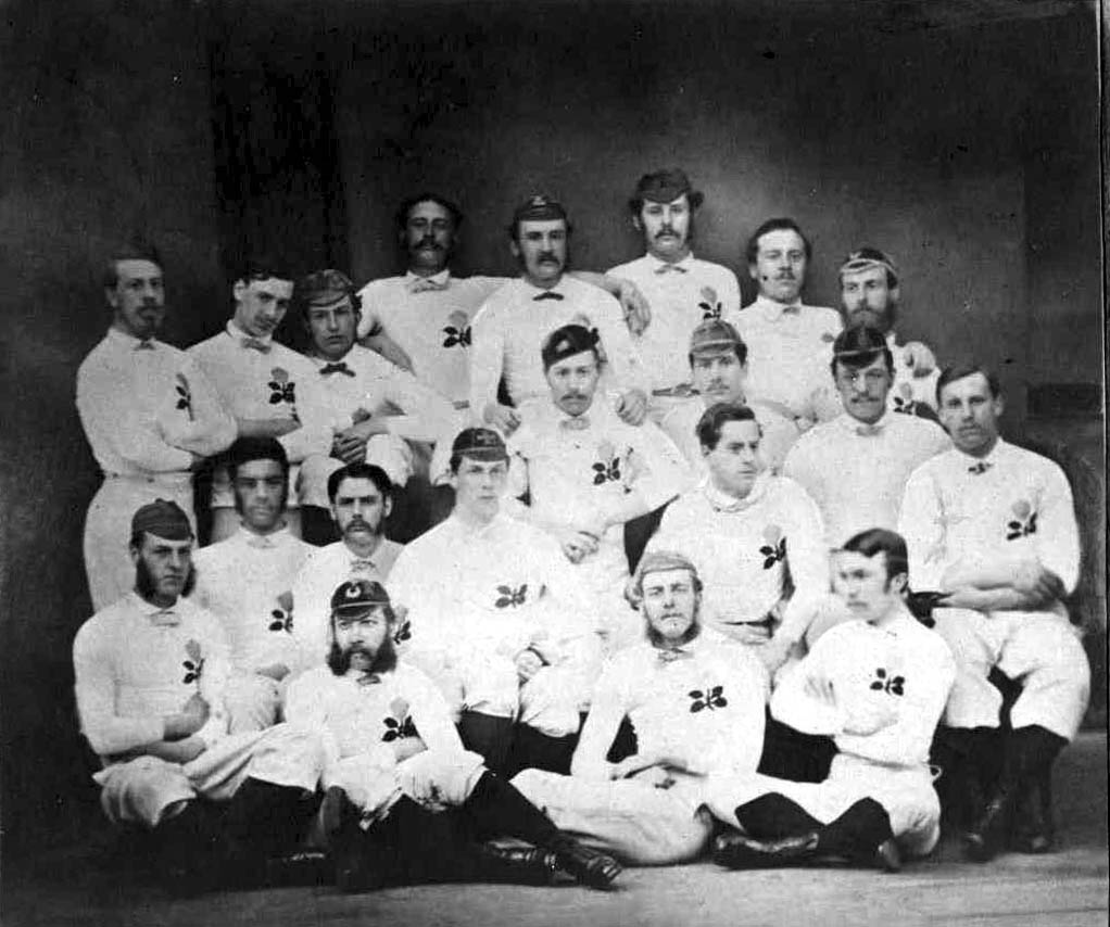 Photo of the first ever England national rugby union team, before their game v. Scotland. The players: (above): J.E.Bentley (Gipsies), A.E.Gibson (Manchester), F.Tobin (Liverpool), D.L.P.Turner (Richmond), F.Stokes (Blackheath), J.H.Clayton (Liverpool), R.R.Osbourne (Manchester), J.H.Luscombe (Gipsies); (middle): A.St G.Hammersley (Marlborough Nomads), W.MacLaren (Manchester), C.W.Sherrard (Blackheath), A.Lyon (Liverpool), C.A.Crompton (Blackheath); (middle above): H.J.C.Turner (Manchester), R.H.Birkett (Clapham Rovers), J.F.Green (West Kent); (below): A.Davenport (Ravenscourt Park), A.G.Guillemard (West Kent), J.M.Dugdale (Ravenscourt Park), B.H.Burns (Blackheath).